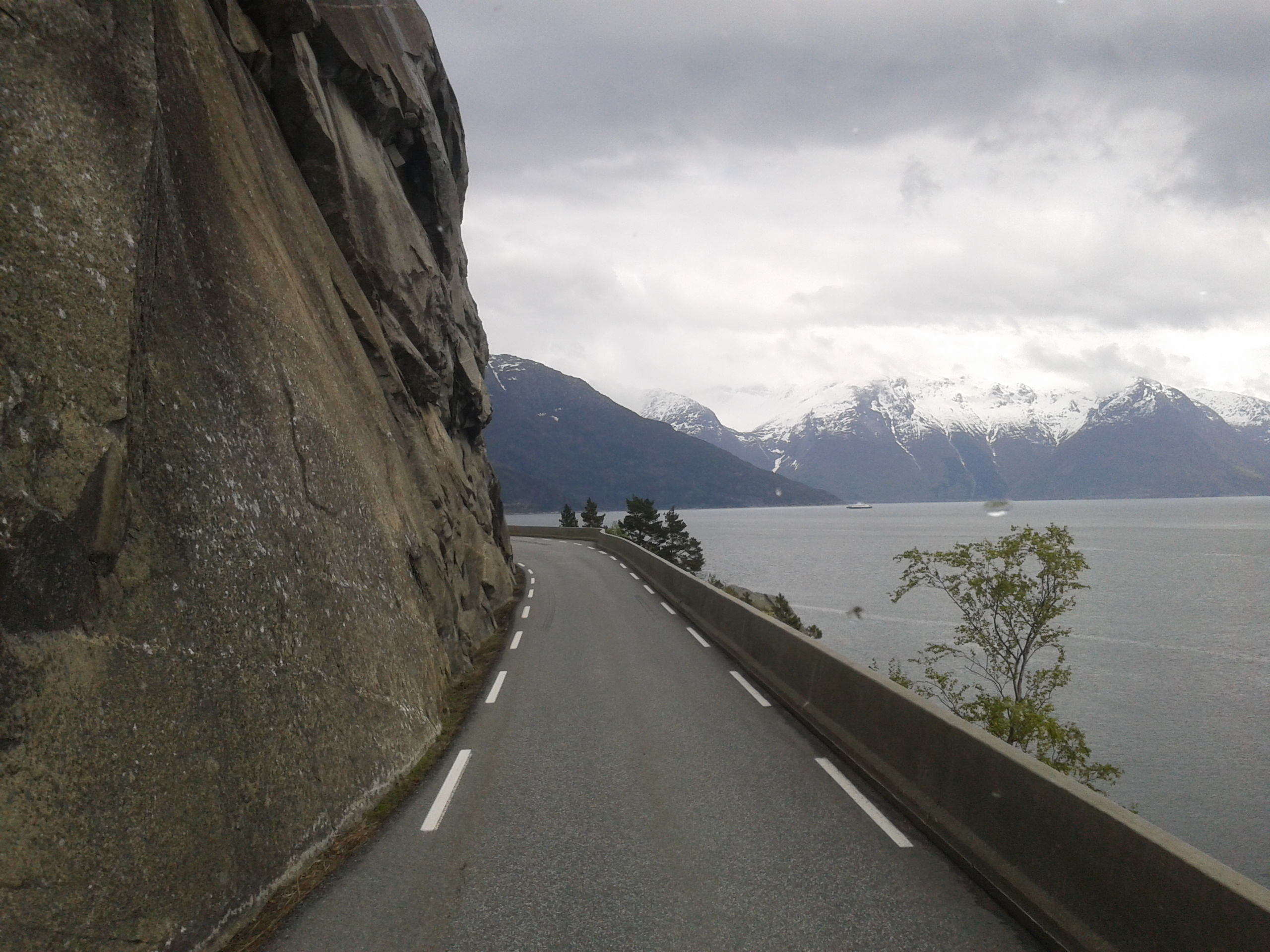 Granvin, Norway